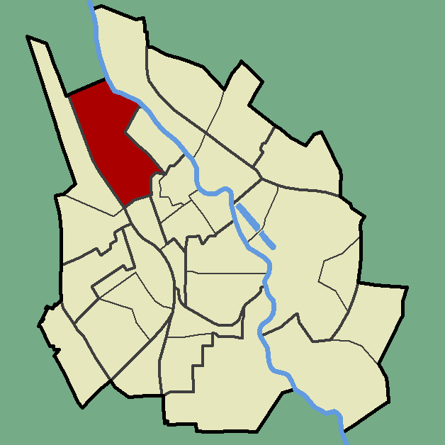 Locator map of Tähtvere, Tartu, Estonia.